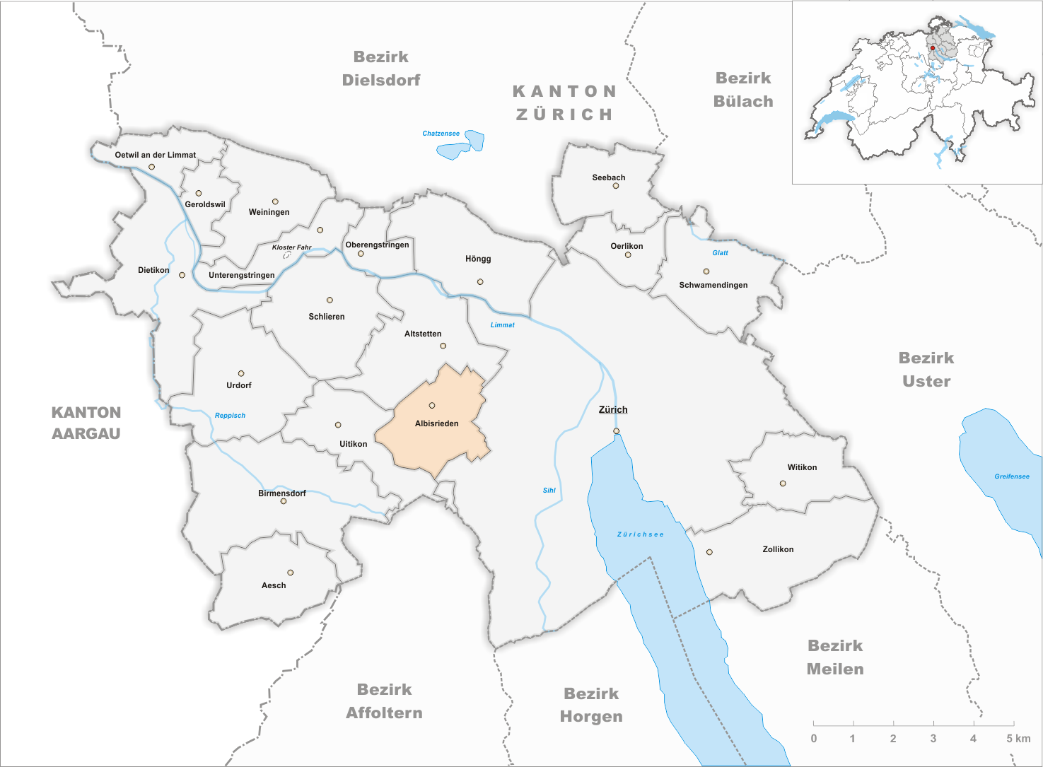 Municipality Albisrieden